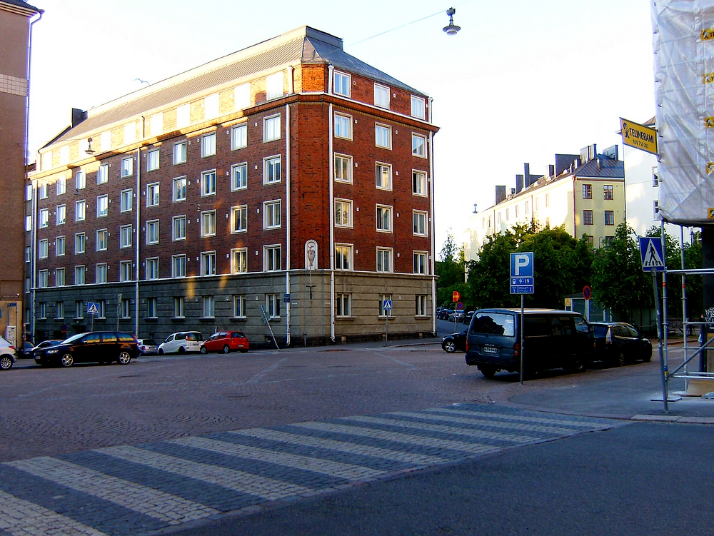 The junction of the streets Fleminginkatu and Franzeninkatu, Helsinki, Finland